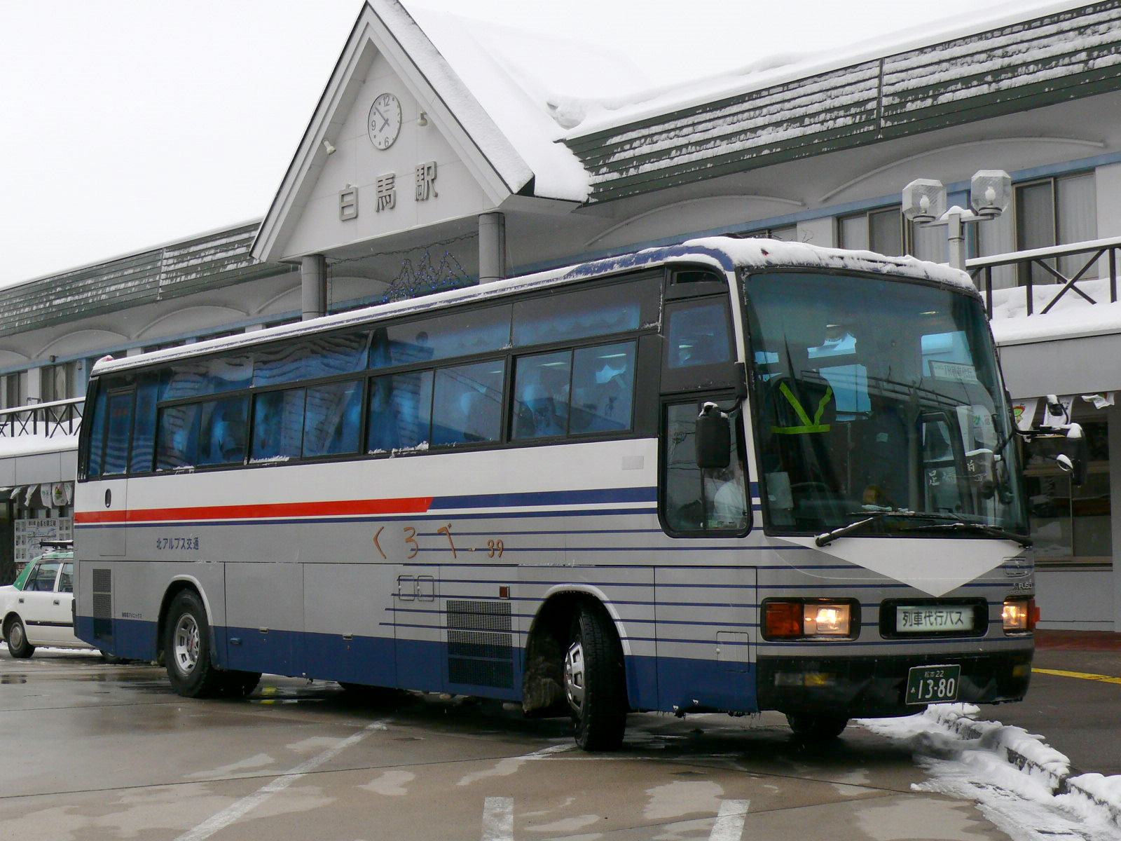 Kitaalps Kotsu Bus for bustitution on the Oito Line at the Hakuba Station in Nagano Prefecture, Japan.